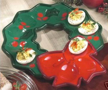 Deviled eggs sitting in a deviled egg dish.